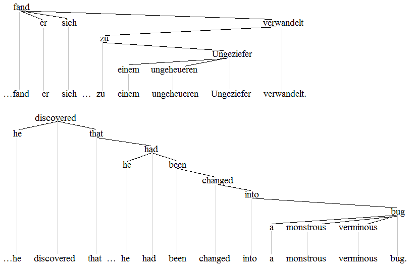 Kafka 1'